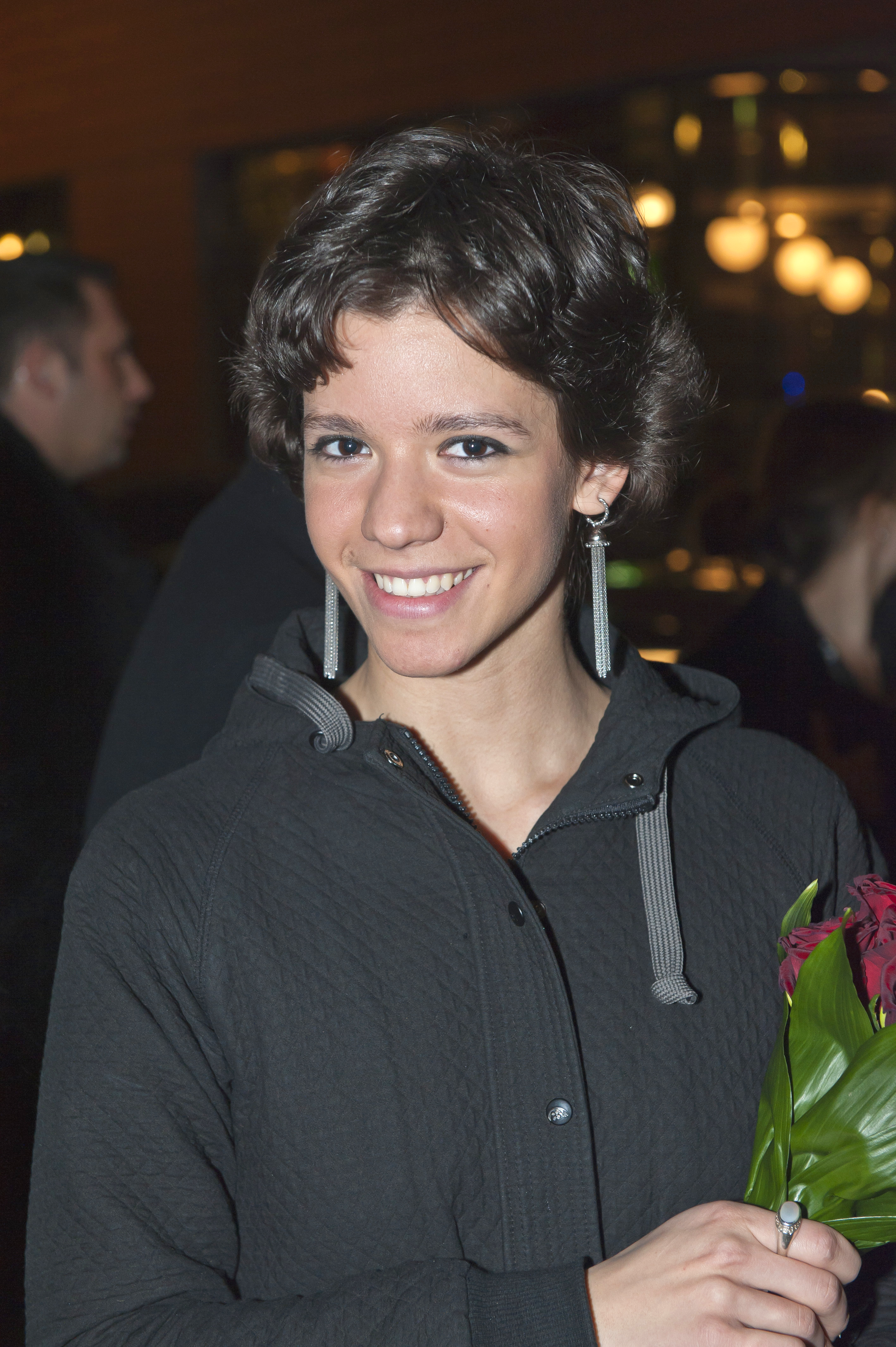 Romanian actress Ada Condeescu, "If I Want to Whistle, I Whistle"